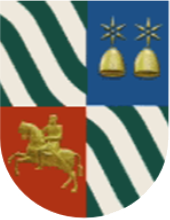 Coat of Arms of Sukhum